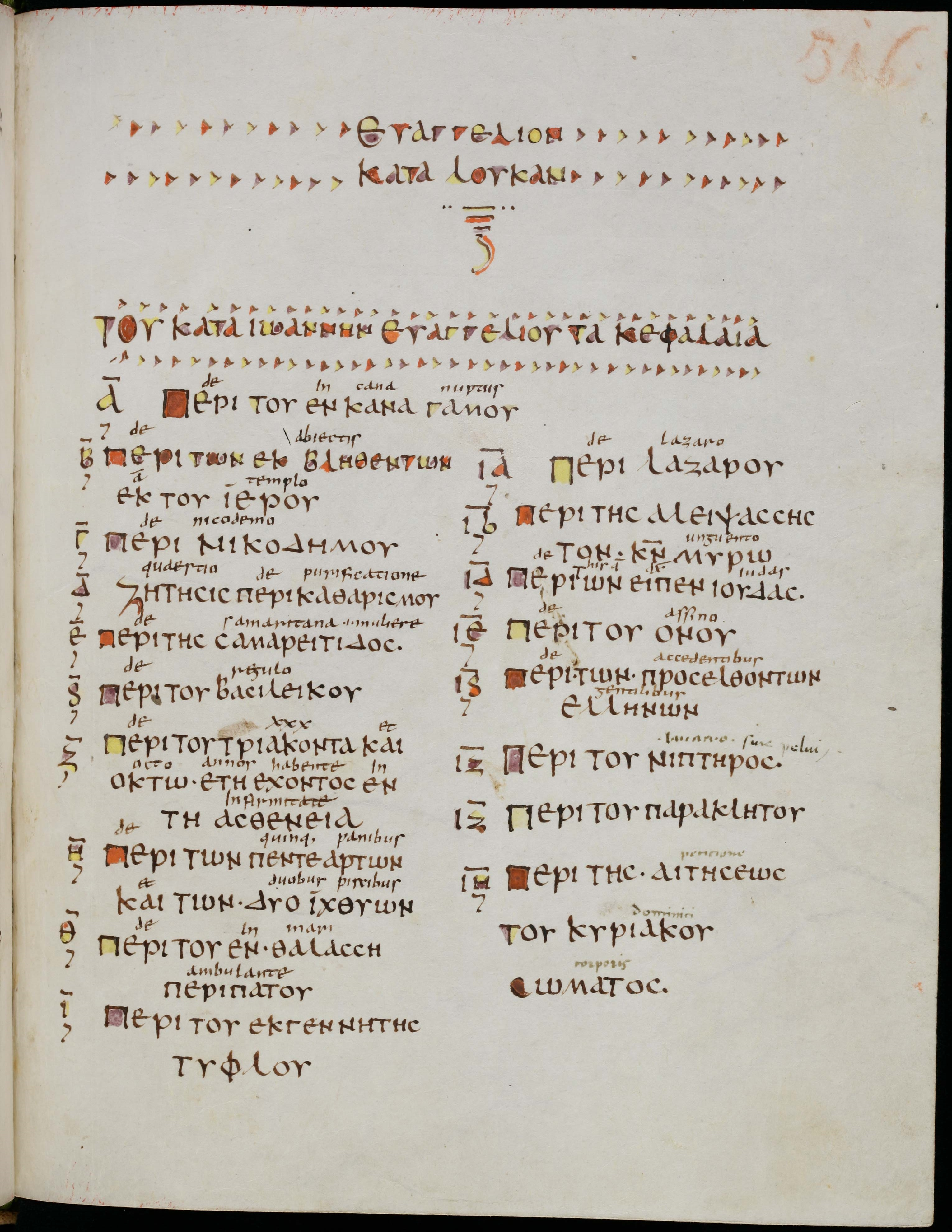 tables of κεφαλαια for the Gospel of John, on the folio 158 v.